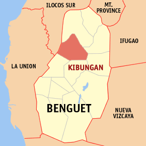 Map of Benguet showing the location of Kibugan